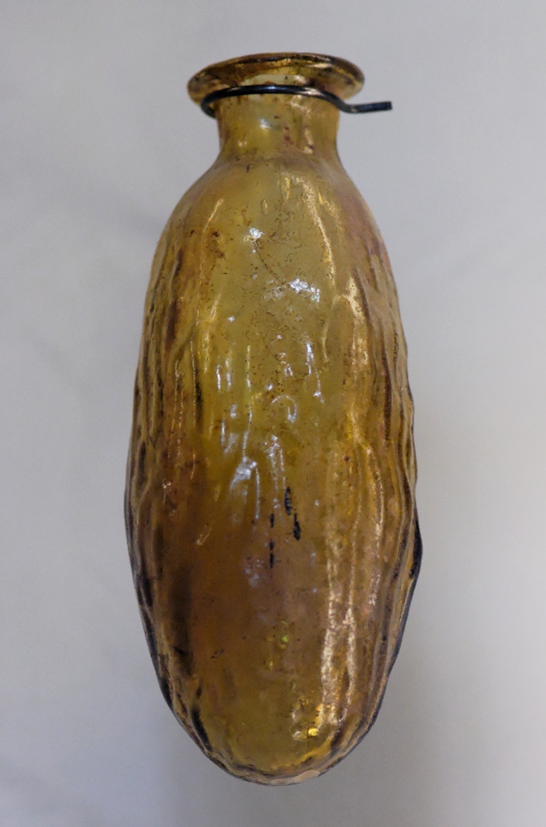 Date-shaped flask.